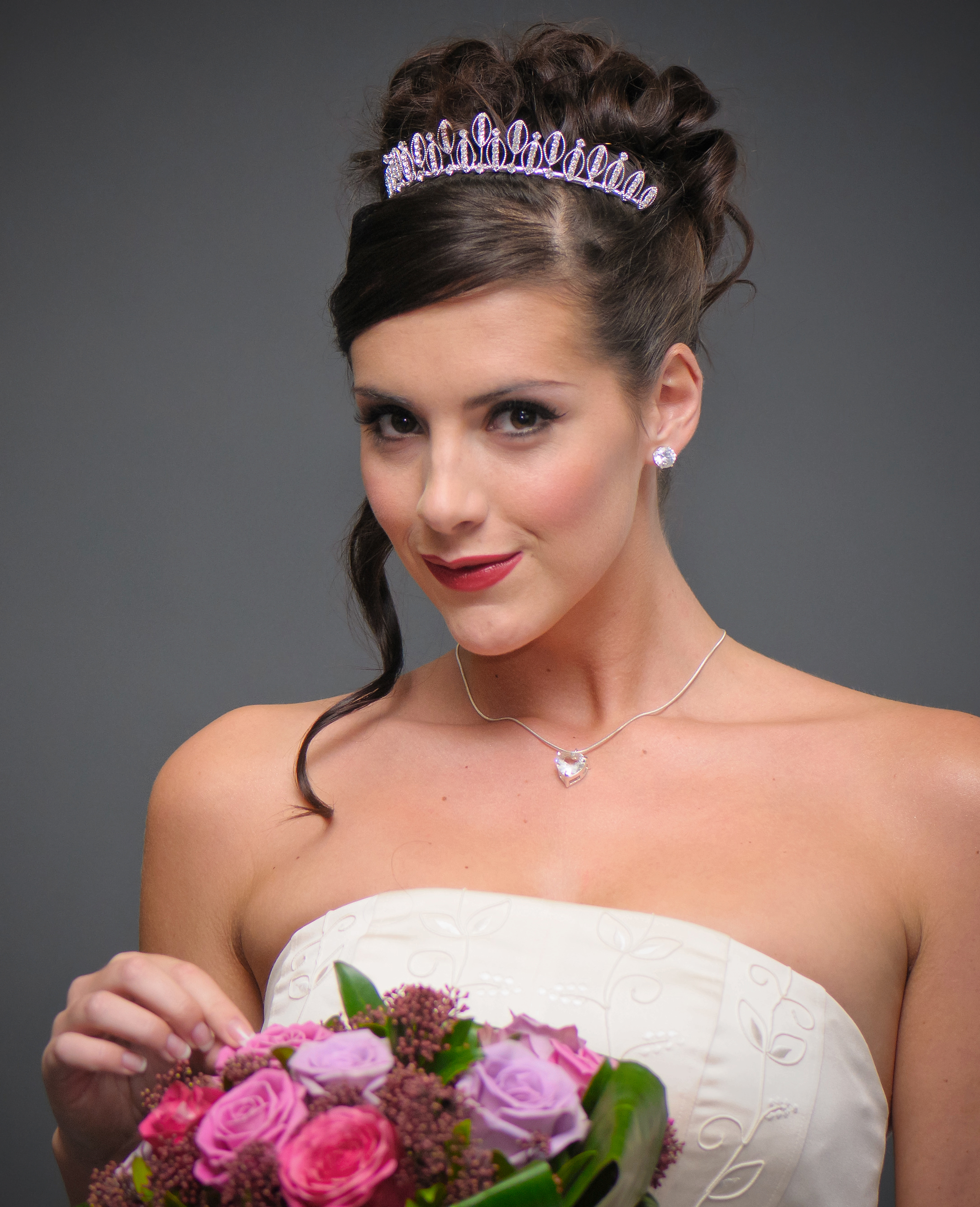 Portrait of English model Katie Green, posing at the Nikon Solutions Exposition in December 2008.